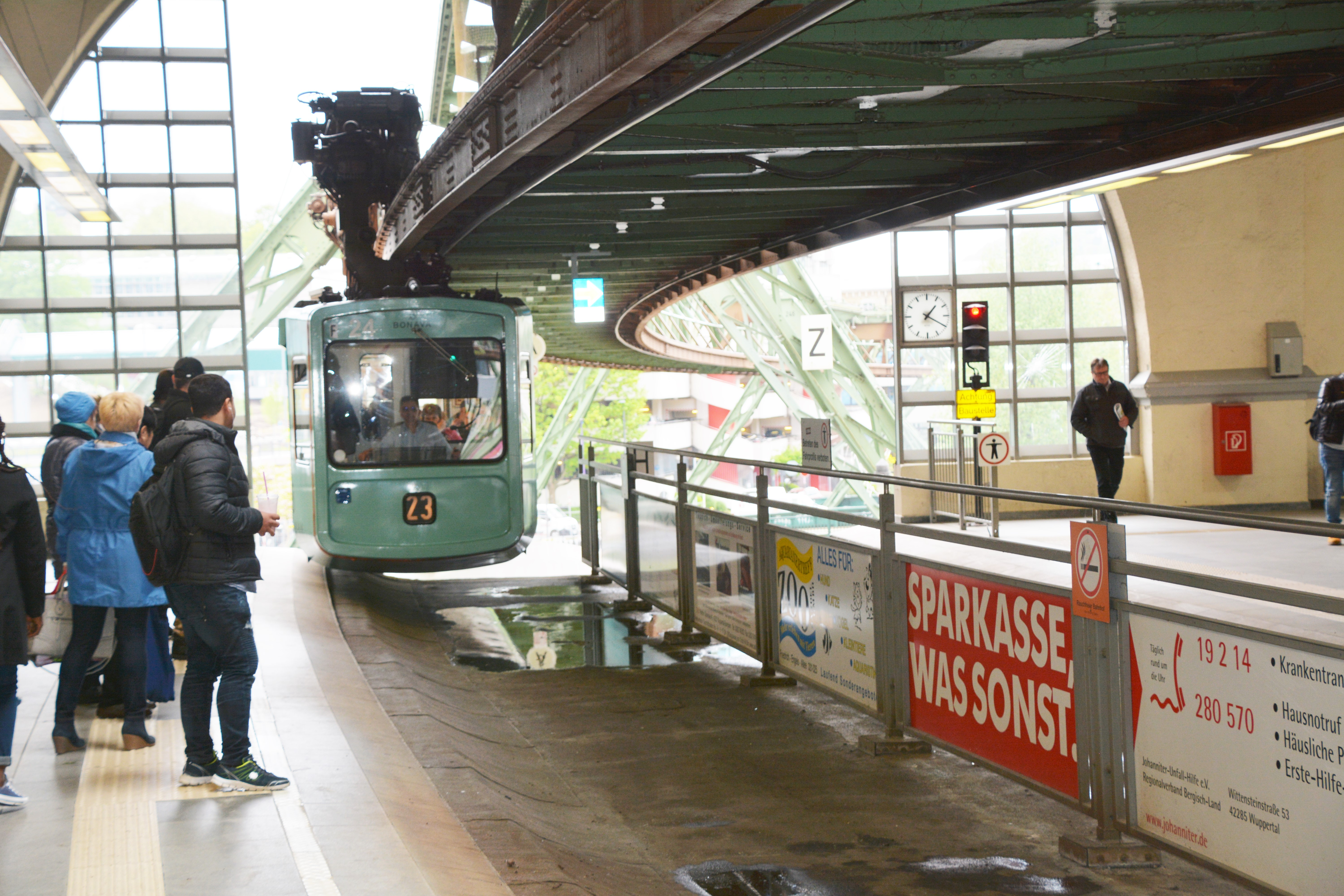 Schwebebahn Station Wuppertal